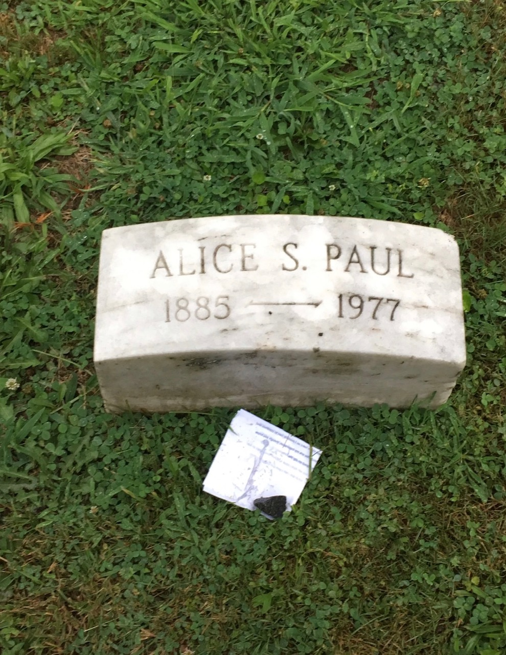 Alice Paul is buried in New Jersey and people frequently leave notes at her gravesite to thank her for her life long work in advancing women's rights